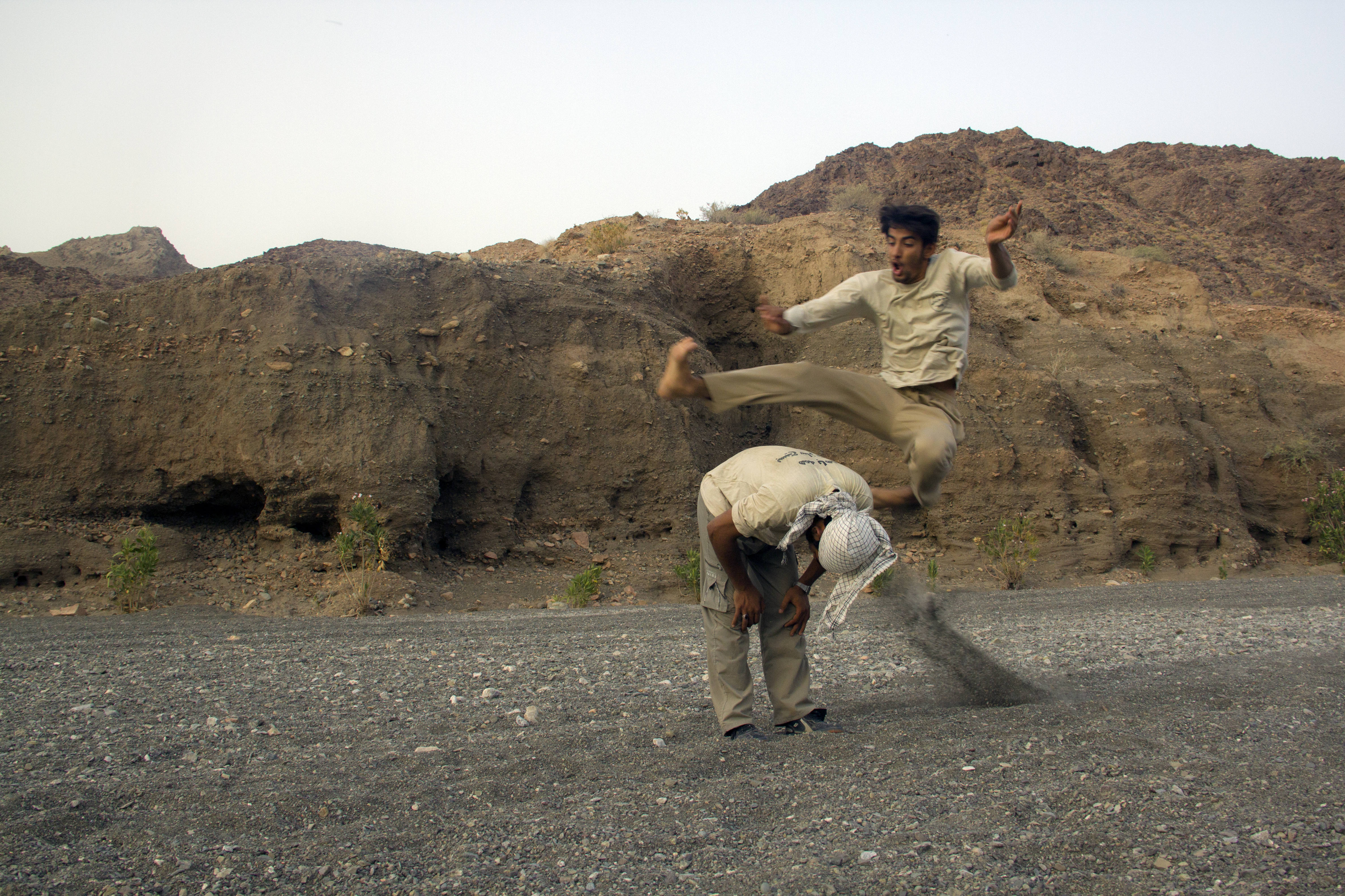 The Basij (Persian: بسيج, lit. "The Mobilization"), Niruyeh Moghavemat Basij (Persian: نیروی مقاومت بسیج, "Mobilisation Resistance Force"), full name Sāzmān-e Basij-e Mostaz'afin (Persian: سازمان بسیج مستضعفین, "The Organization for Mobilization of the Oppressed"), is one of the five forces of the Army of the Guardians of the Islamic Revolution. A paramilitary volunteer militia established in Iran in 1979 by order of Ayatollah Khomeini, leader of the Iranian Revolution, the organization originally consisted of civilian volunteers who were urged by Khomeini to fight in the Iran–Iraq War.